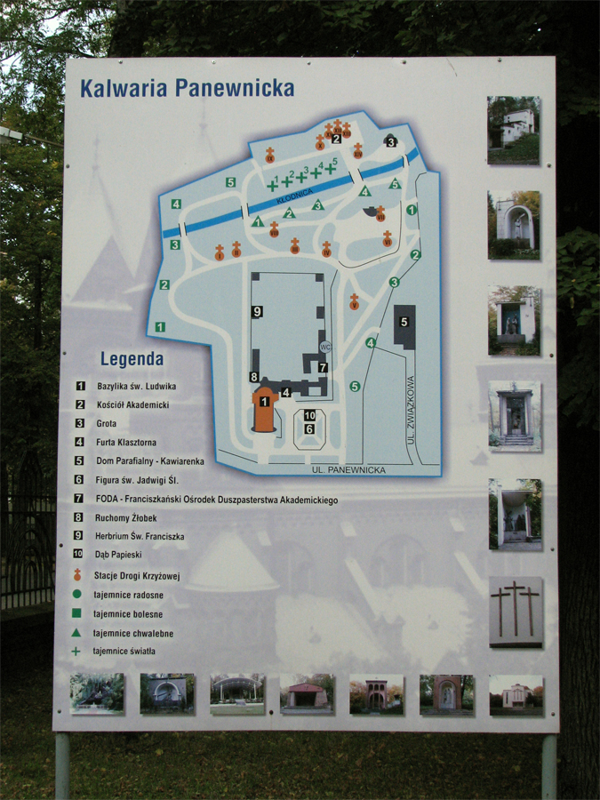 Information board at Calvary in Katowice Panewniki